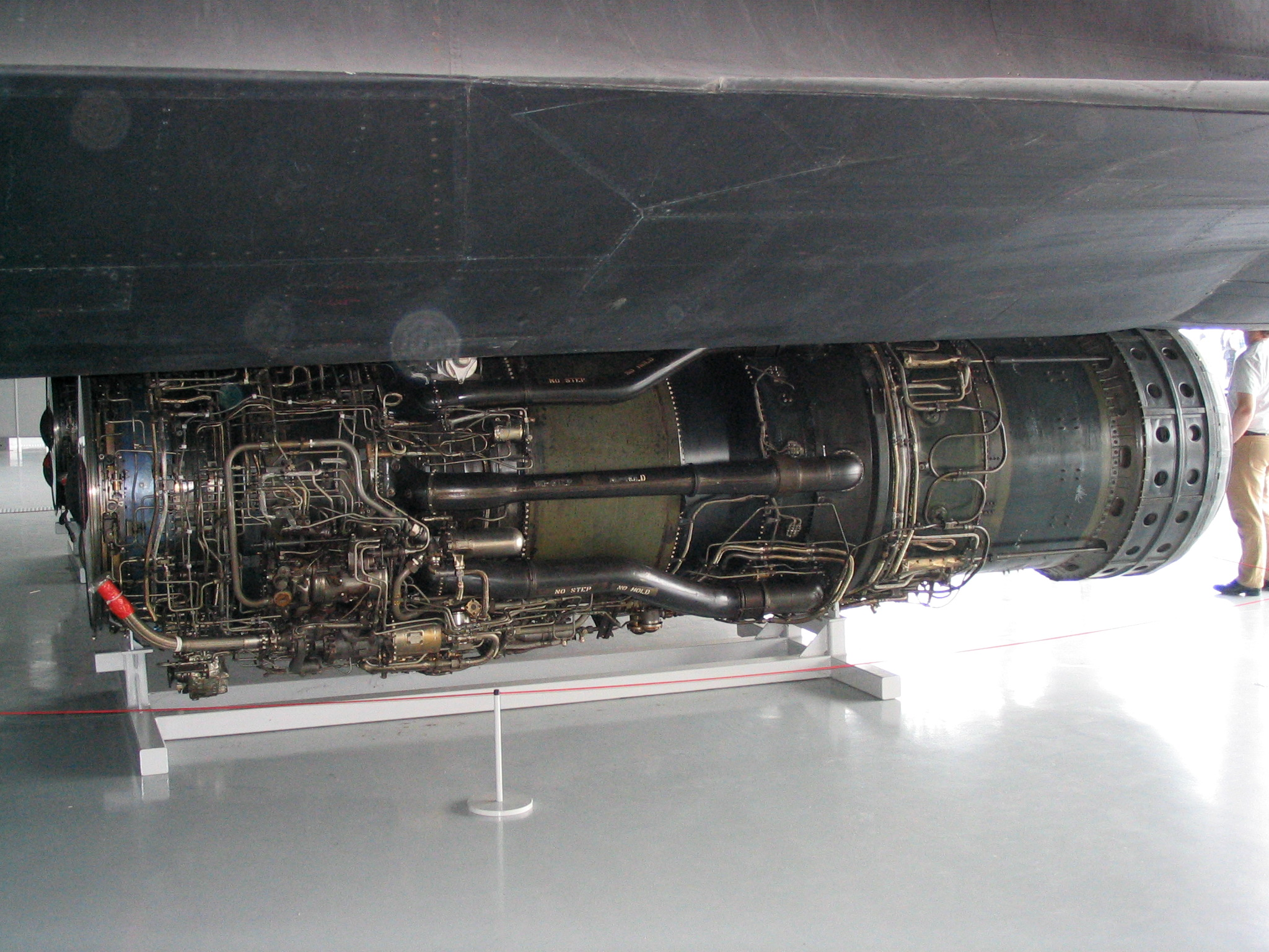 J58 jet engine from an SR71 blackbird at Duxford